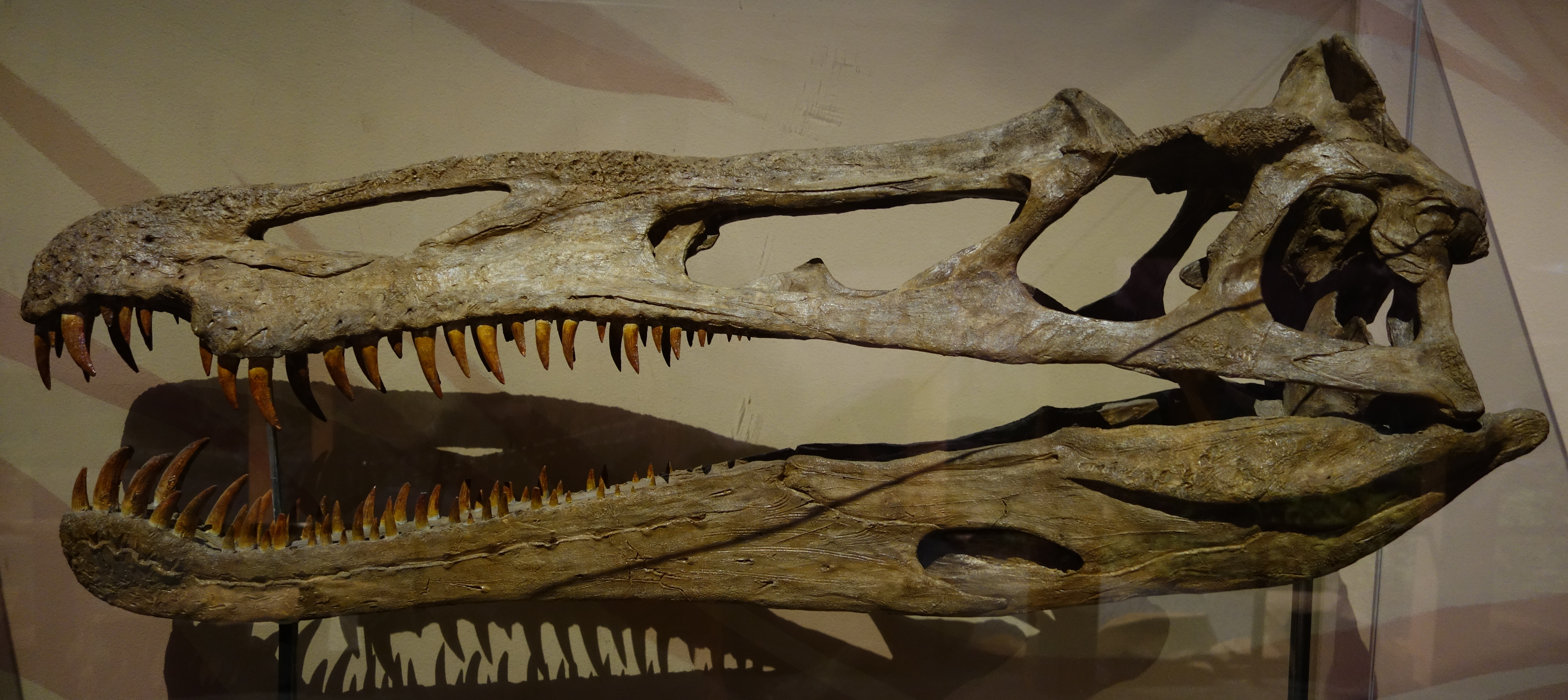 Suchomimus skull cast, on display at the Museum of Ancient Life, Utah.